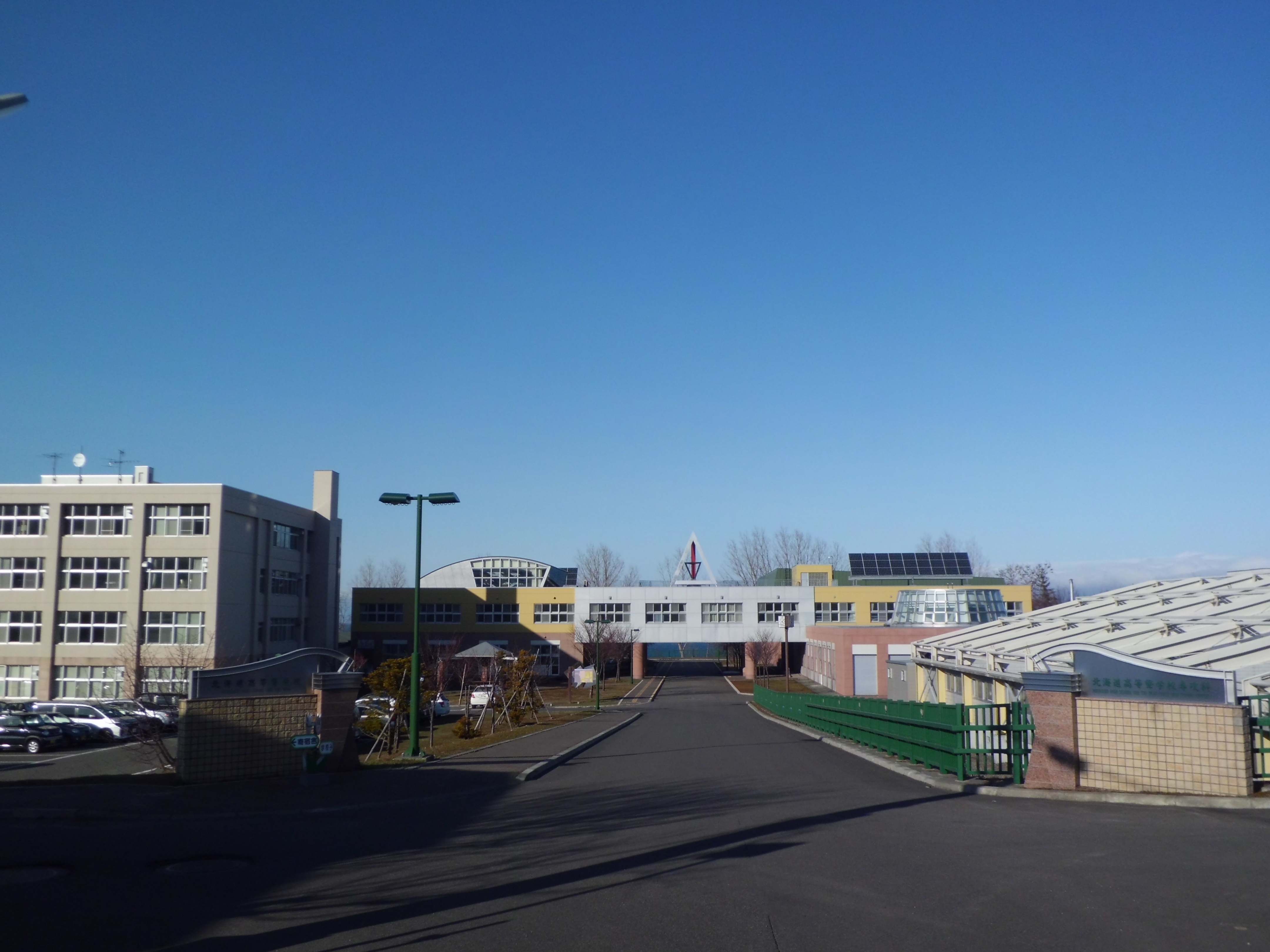 Hokkaido High School for the Deaf